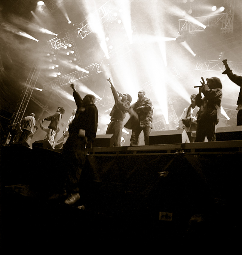 SPLASH festival 2000